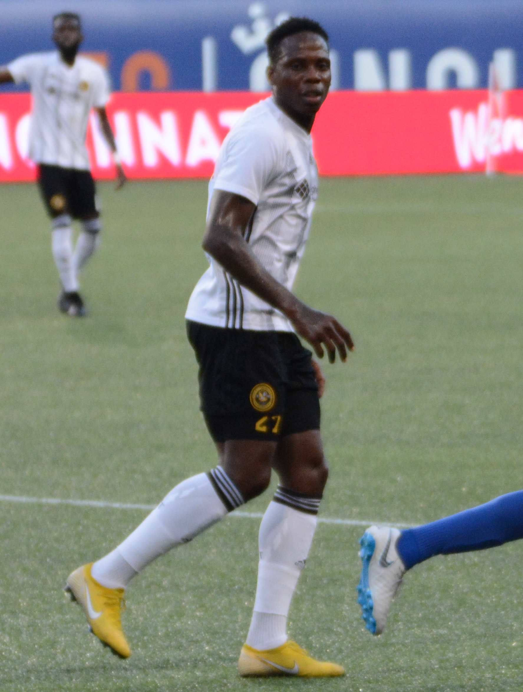 Taken during a USL regular season match between FC Cincinnati and Pittsburgh Riverhounds at Nippert Stadium in Cincinnati, USA on September 1, 2018.